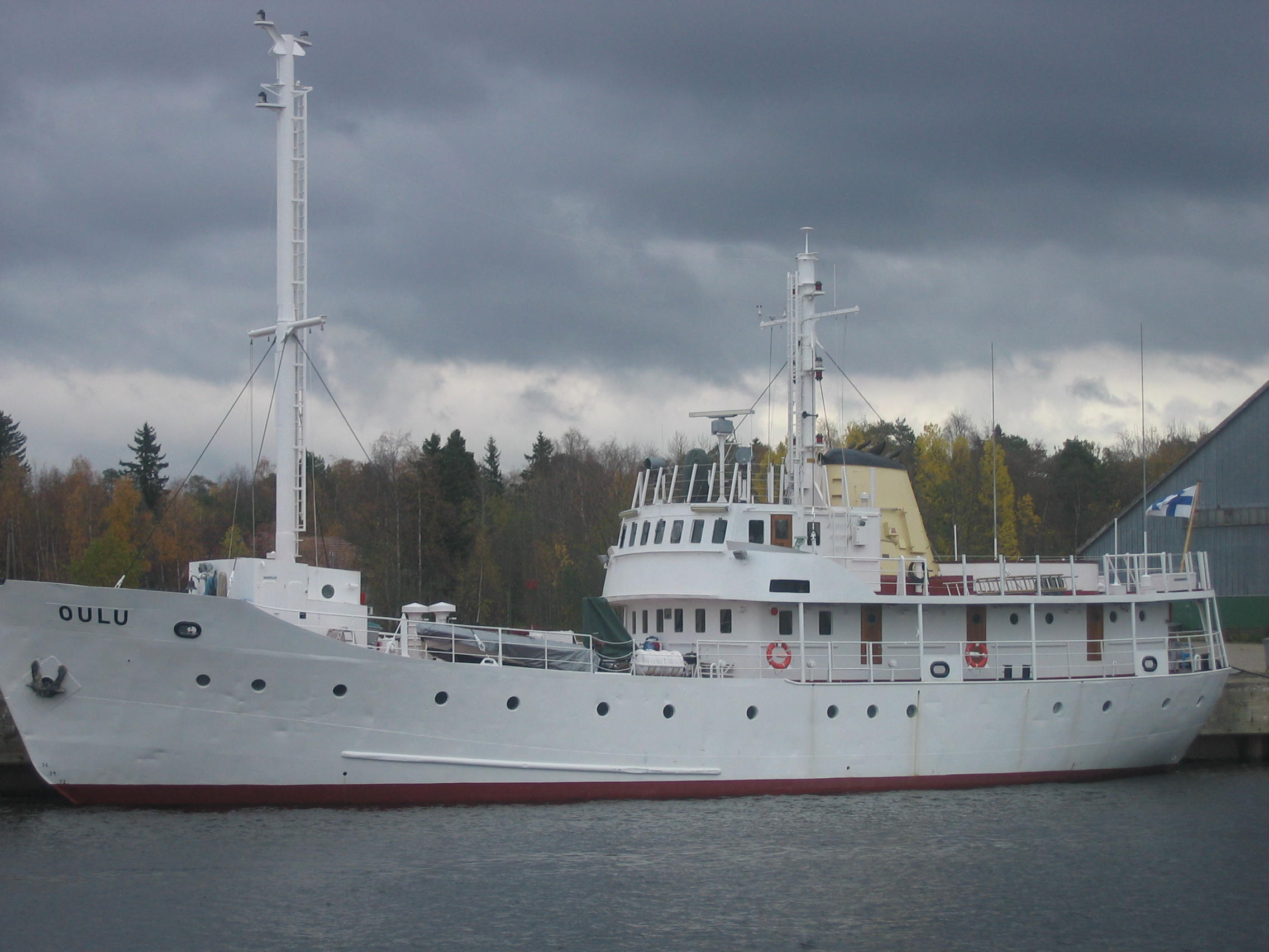 MS Oulu at the harbour of Toppila, city of Oulu, Finland.